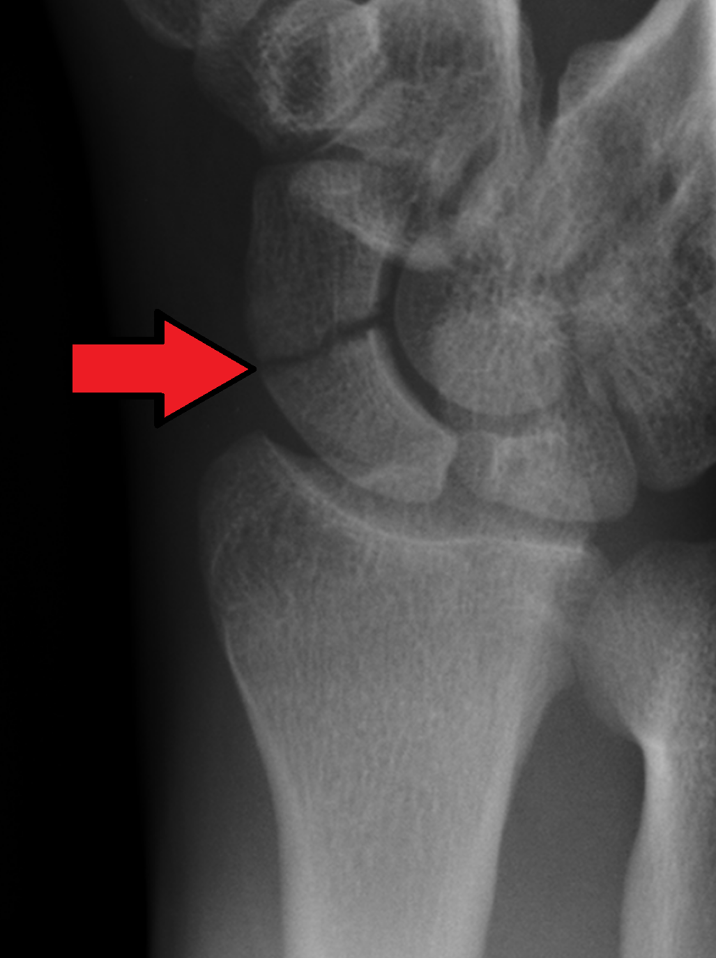 Fracture across waist of scaphoid bone (indicated by arrow).